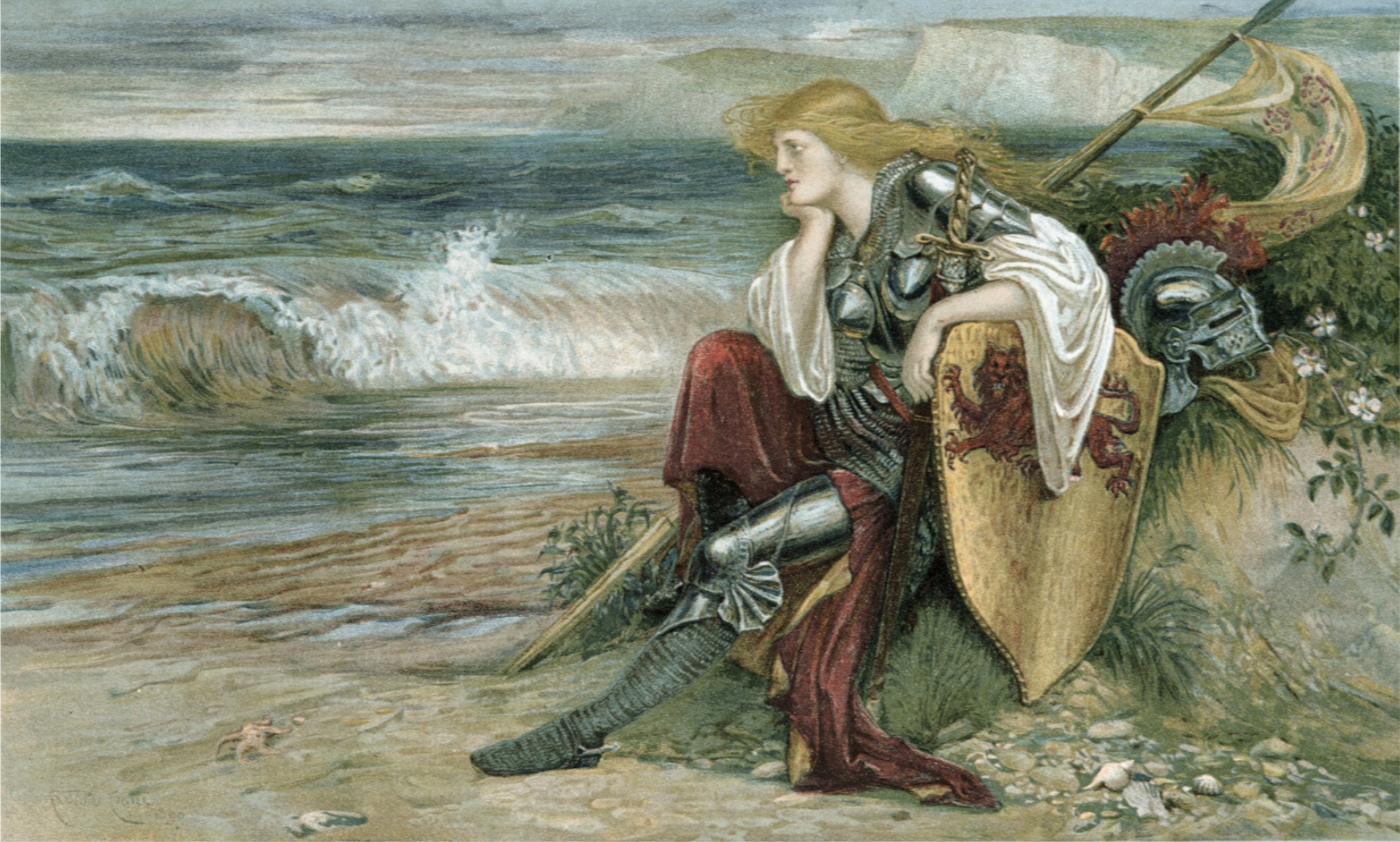 heroine of Book III of Spenser's 'Faerie Queene'